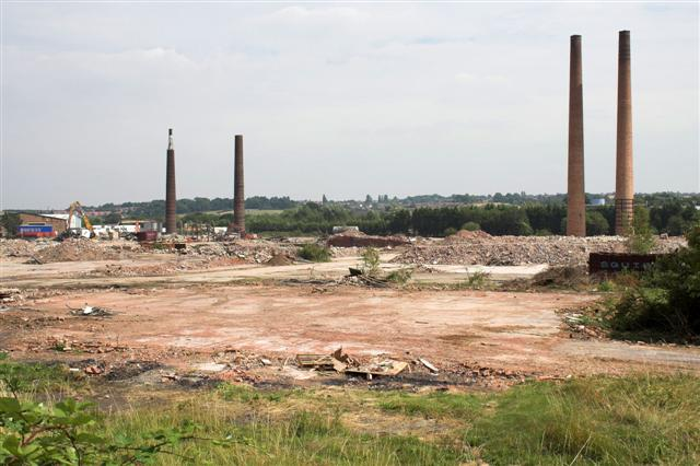 Dema Glass Chimneys. All that remains of the Dema Glass factory. These chimneys will soon be destroyed and a football stadium built on the site.